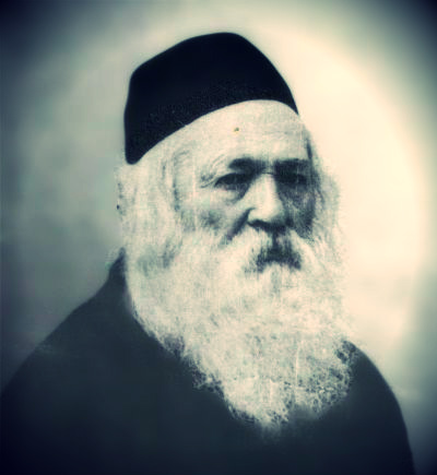 Rabbi Chaim Berlin.